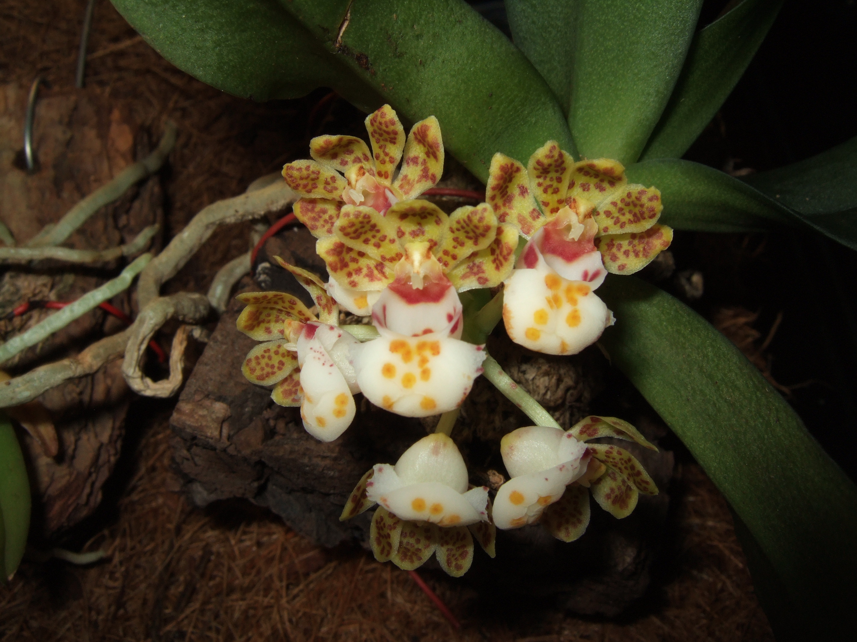 Flowers of Gastrochilus hainanensis.